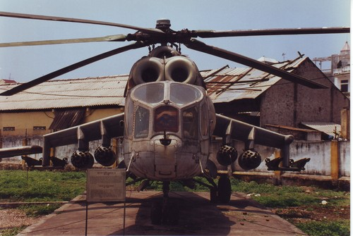 Mil Mi-24A helicopter at the Vietnamese People's Air Force Museum, Hanoi